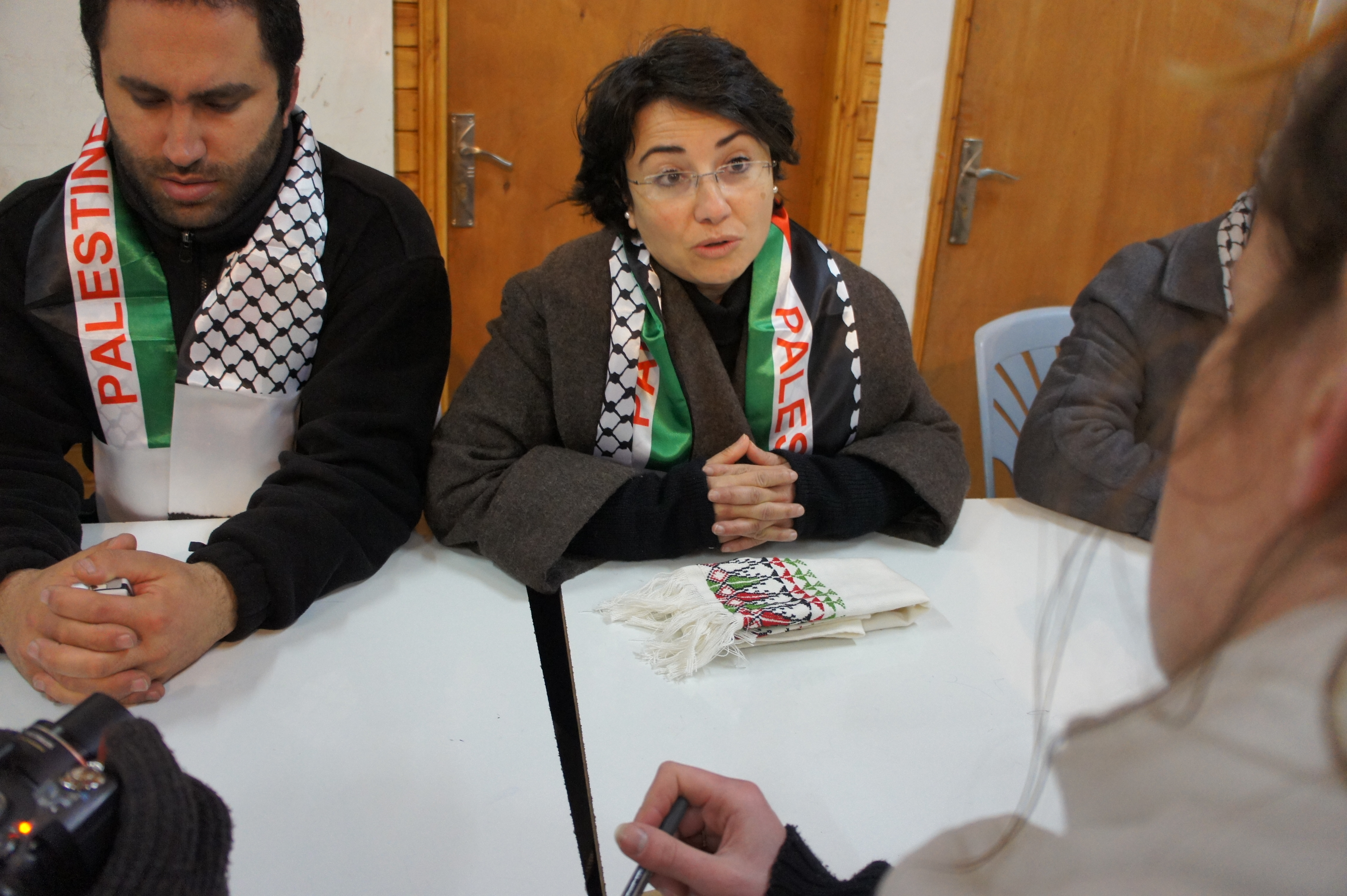 Haneen Zoabi and Issa Amro, inside Youth Against Settlements house, in Hebron, February 2012